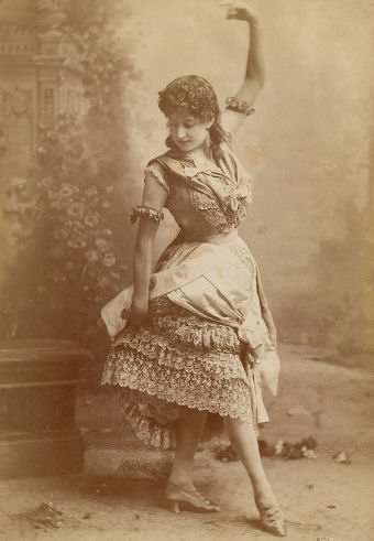 Carte de visite of Lottie Collins in Monte Cristo Jr. (1886)